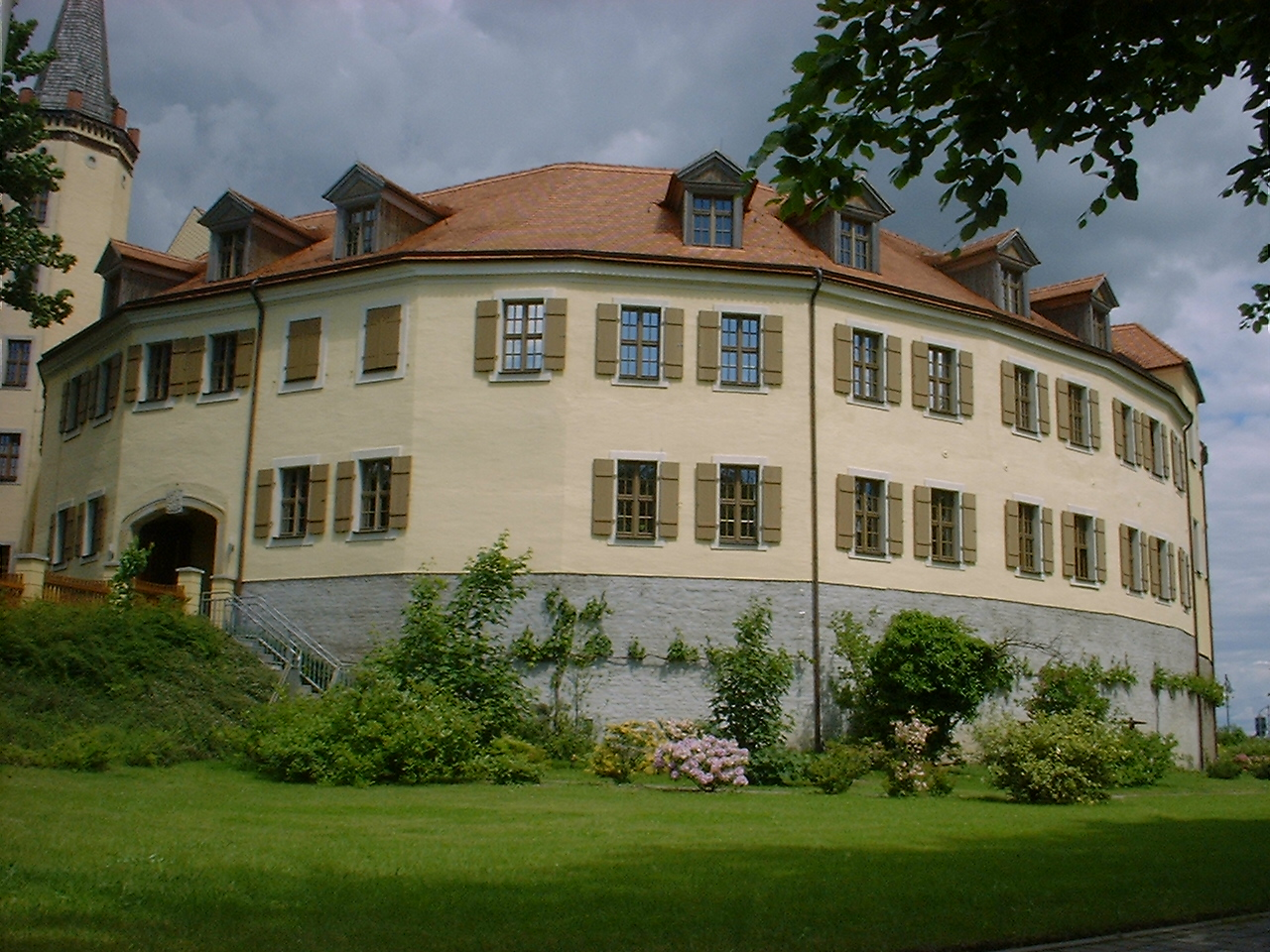 Castle in Jessen in Saxony-Anhalt, Germany